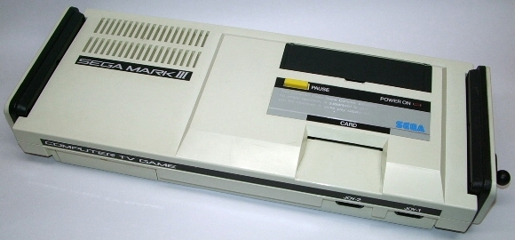 SG-1000 Mark III